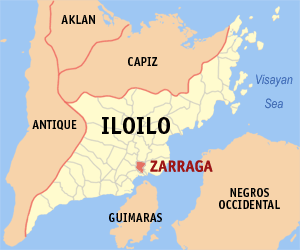 Map of Iloilo showing the location of Zarraga